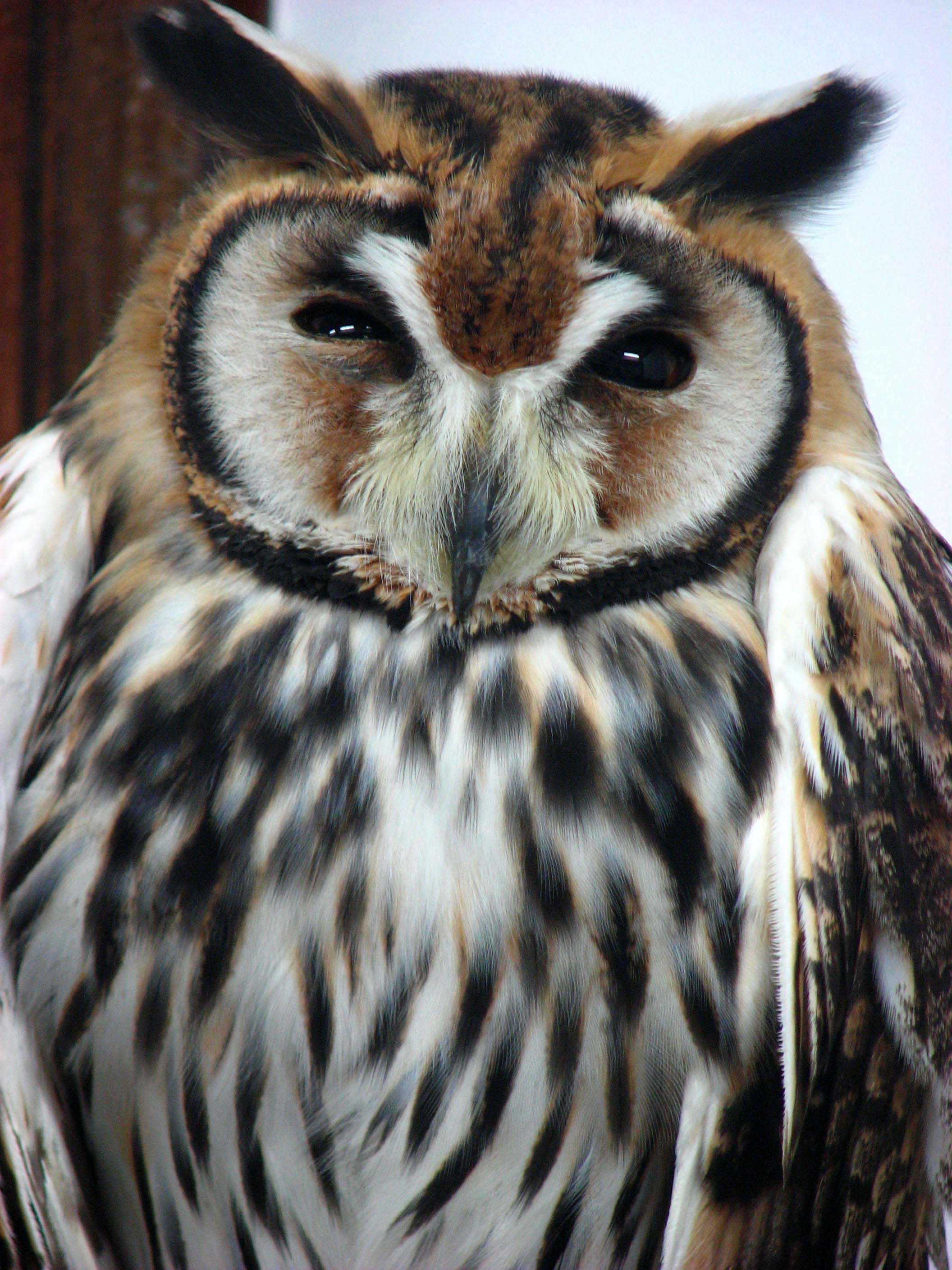 Striped Owl Pseudoscops clamator